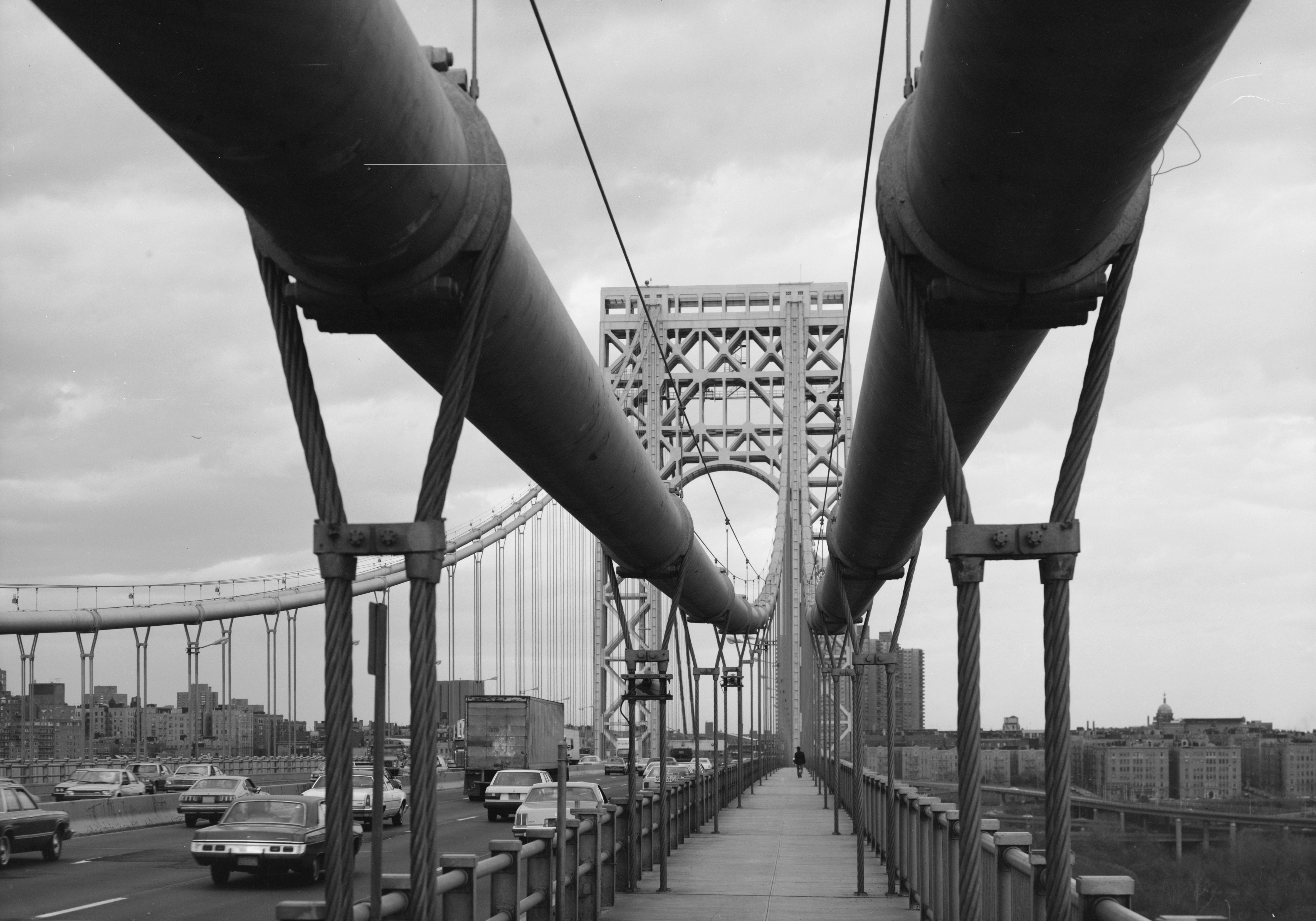 George Washington Bridge, spanning the Hudson River between New York City and New Jersey, circa 1985 .